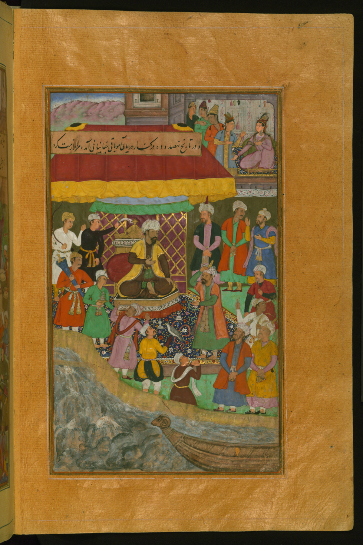 Illustrations from the Manuscript of Baburnama (Memoirs of Babur) - Late 16th Century Bāburnāma is the memoirs of Ẓahīr ud-Dīn Muḥammad Bābur (1483-1530), founder of the Mughal Empire and a great-great-great-grandson of Timur. It is an autobiographical work, originally written in the Chagatai language, known to Babur as "Turki" (meaning Turkic), the spoken language of the Andijan-Timurids. Because of Babur's cultural origin, his prose is highly Persianized in its sentence structure, morphology, and vocabulary,and also contains many phrases and smaller poems in Persian. During Emperor Akbar's reign, the work was completely translated to Persian by a Mughal courtier, Abdul Rahīm, in AH (Hijri) 998 (1589-90). These Paintings, being a fragment of a dispersed copy, was executed most probably in the late 10th AH /16th CE century. It contains 30 mostly full-page miniatures in fine Mughal style by at least two different artists. Another major fragment of this work (57 folios) is in the State Museum of Eastern Cultures, Moscow.